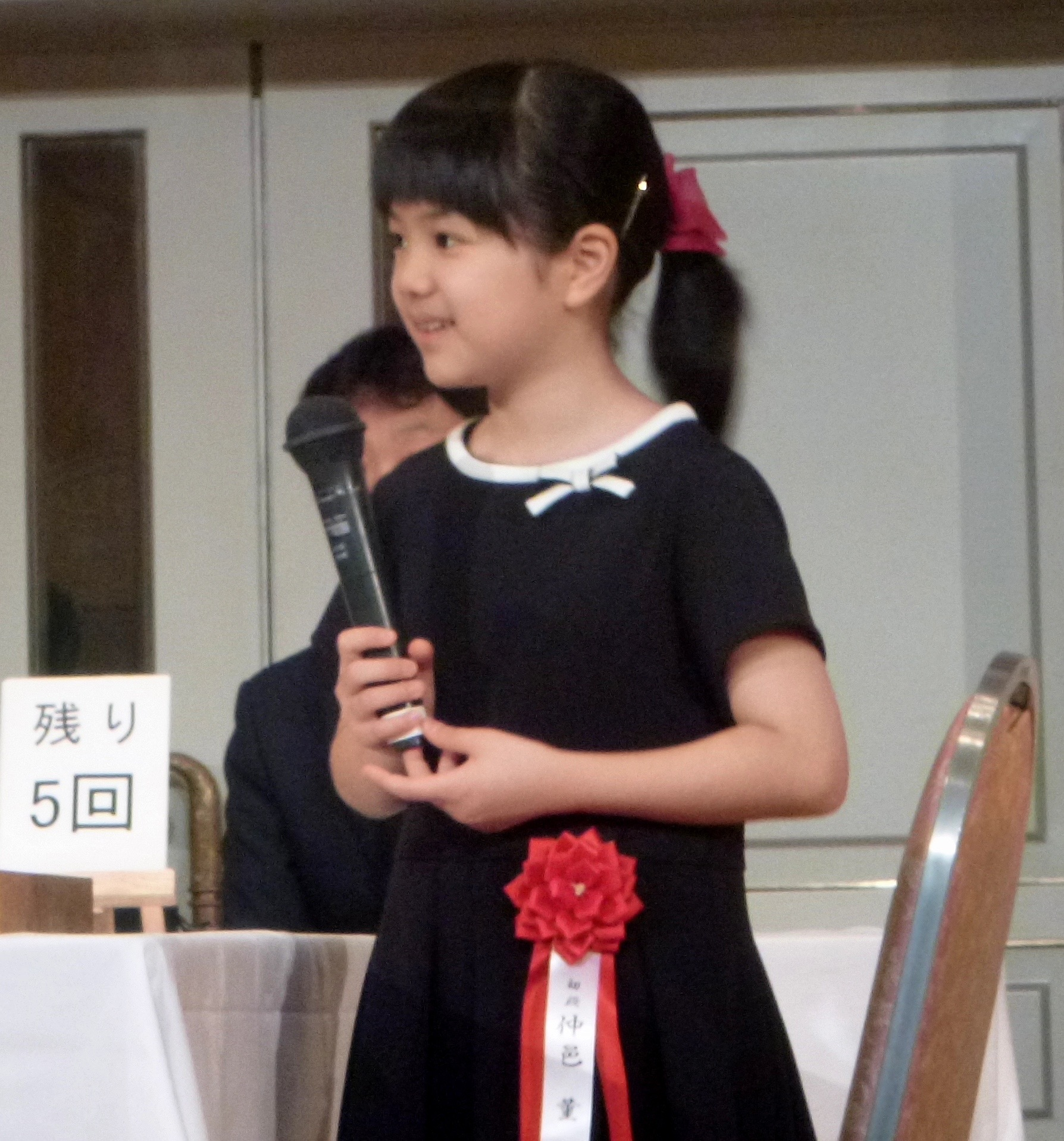 Japanese go player Sumire Nakamura greeting to audience before the exhibition match of World Go Festival in Takaraduka, Hyogo, Japan.